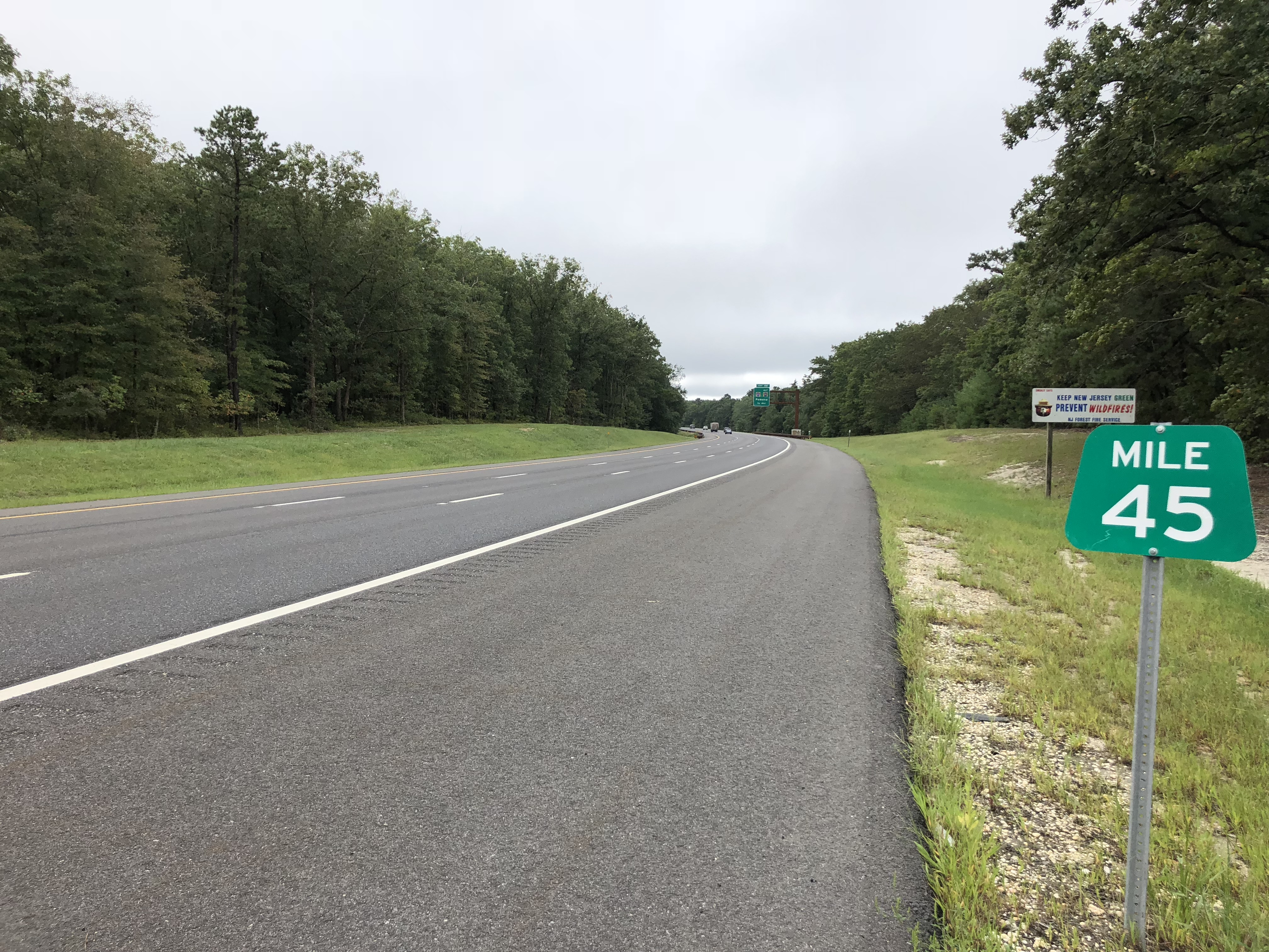 View south along New Jersey State Route 444 (Garden State Parkway) just north of Exit 44 in Galloway Township, Atlantic County, New Jersey